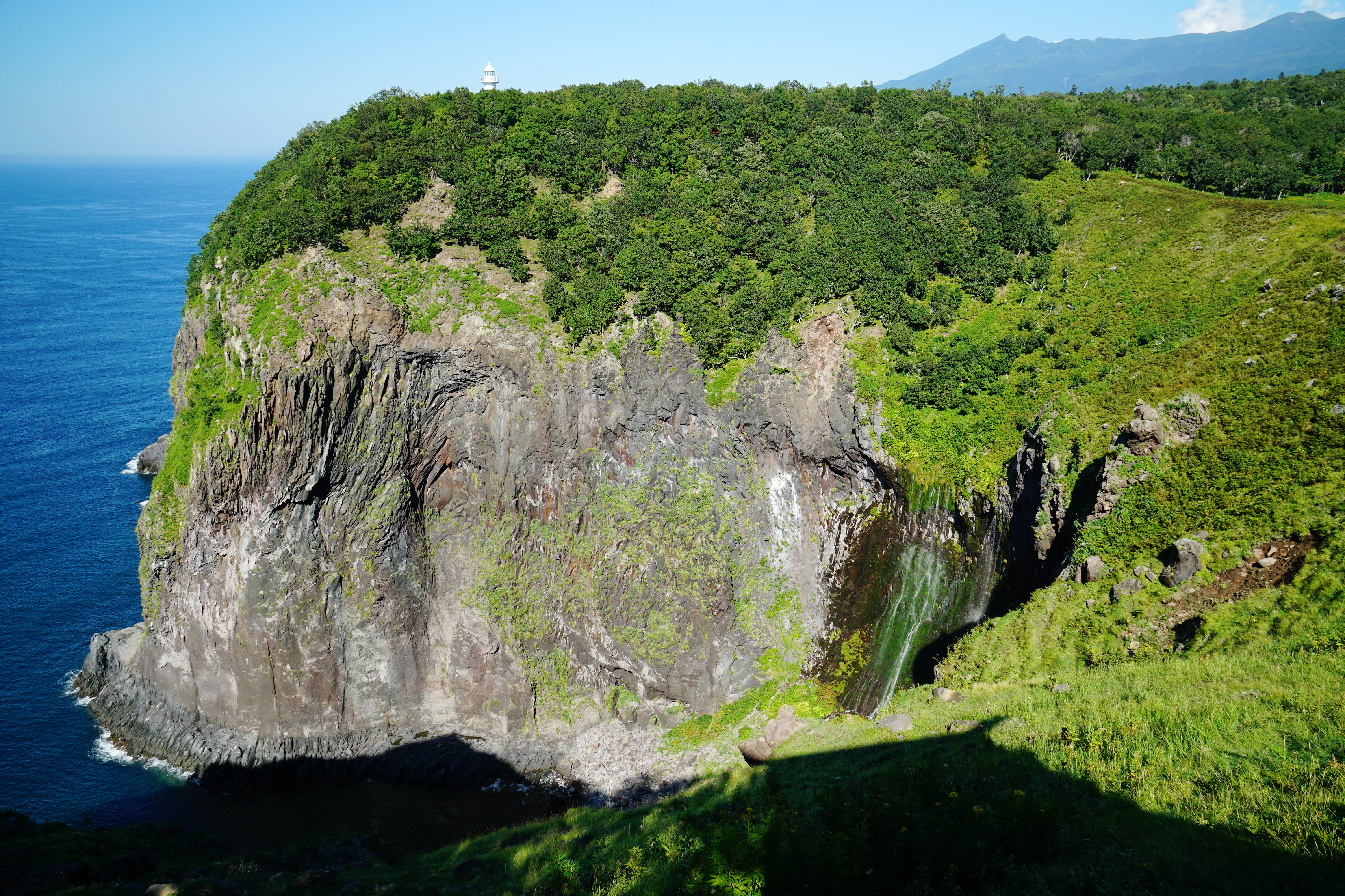 Furepe Falls in Shari, Hokkaido prefecture, Japan. It was registered as part of the UNESCO World Heritage Site "Shiretoko".